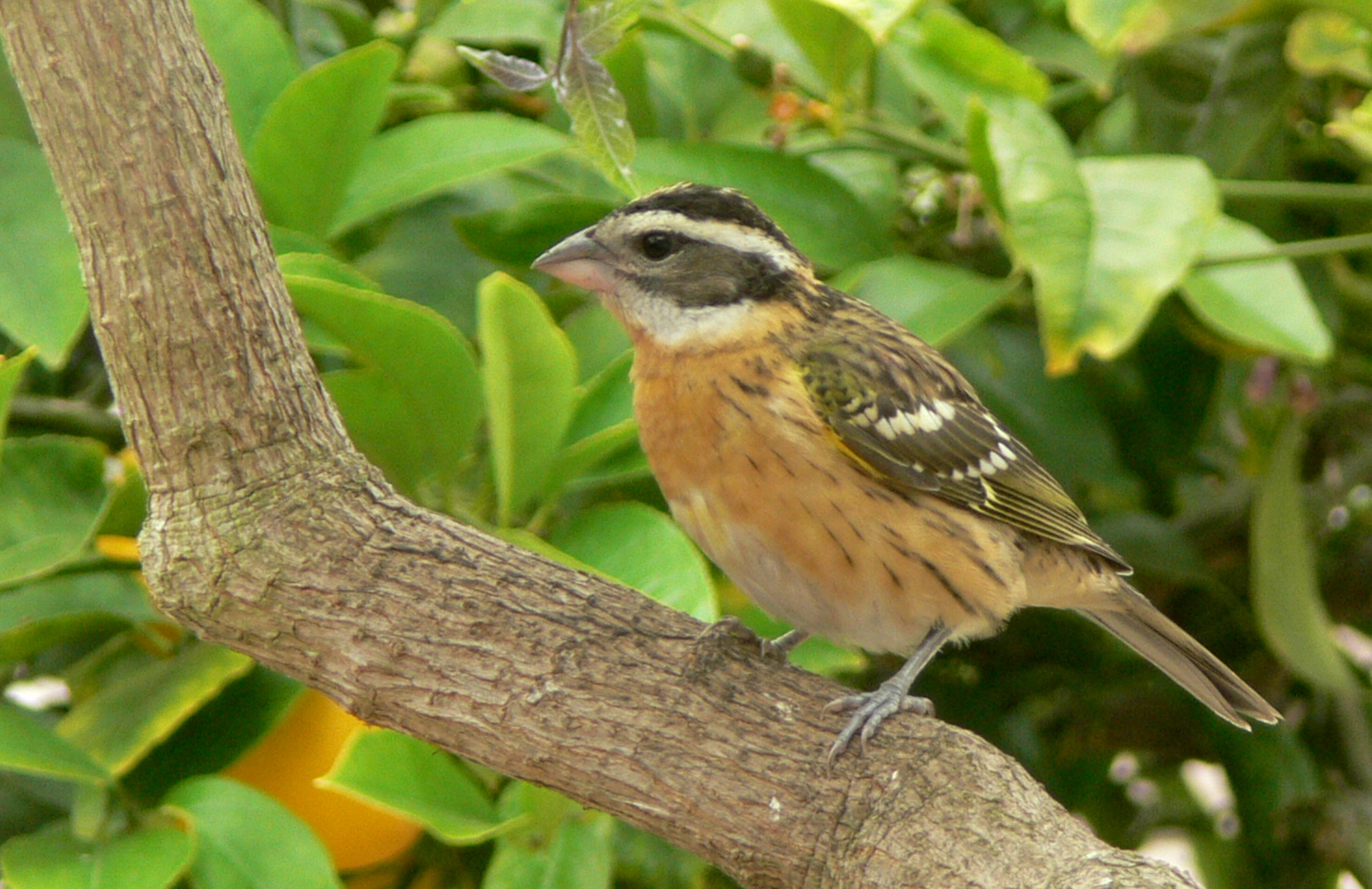 Pheucticus melanocephalus Female View On Black